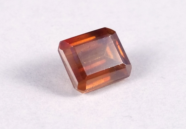 Sphalerite, 3.86ct, Spain